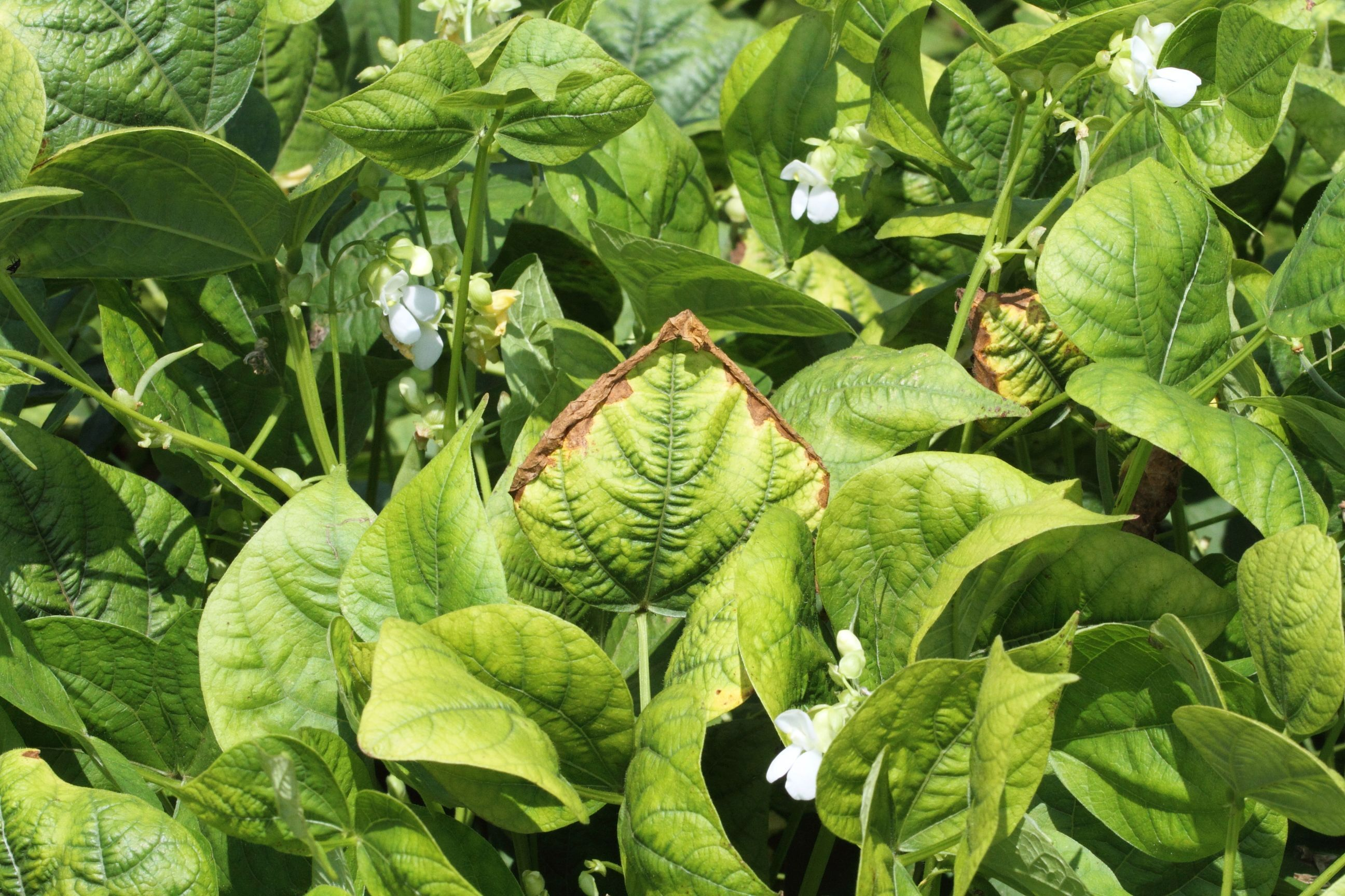 Potassium deficiency symptoms in Phaseolus vulgaris; interveinal chlorosis and necrosis of the leaf margin. From a dry-bean variety trial on Cedara research farm.